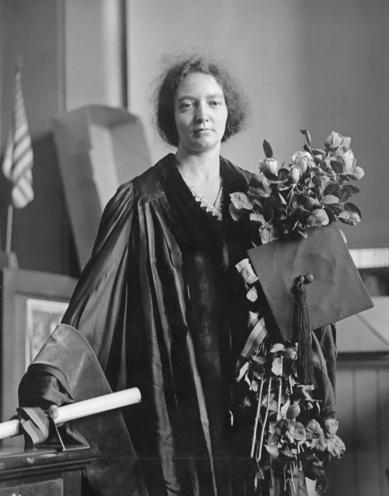 Creator: Stokley, James 1900-1990 Subject: Joliot-Curie, Irène 1897-1956 Stokley, James 1900-1990 University of Pennsylvania Type: Black-and-white photographs Date: 1921 Topic: Physics Women scientists Nobel Prizes Local number: SIA Acc. 90-105 [SIA2008-4488] Summary: Physicist Irène Joliot-Curie (1897-1956) is shown in full academic regalia on May 23, 1921, when she accepted an honorary degree at the University of Pennsylvania on behalf of her mother Marie Sklodowska Curie (1867-1934). Accompanied by her daughters Irène and Eve, Marie Curie had an exhausting schedule of appearances during her 1921 U.S. tour, accepting awards and a gift of radium for her research, arranged by various women's associations and scientific groups. The photographer, James Stokley, was teaching school in Philadelphia and in 1925 became a science journalist on the Science Service staff Cite as: Acc. 90-105 - Science Service, Records, 1920s-1970s, Smithsonian Institution Archives Persistent URL, Smithsonian Institution